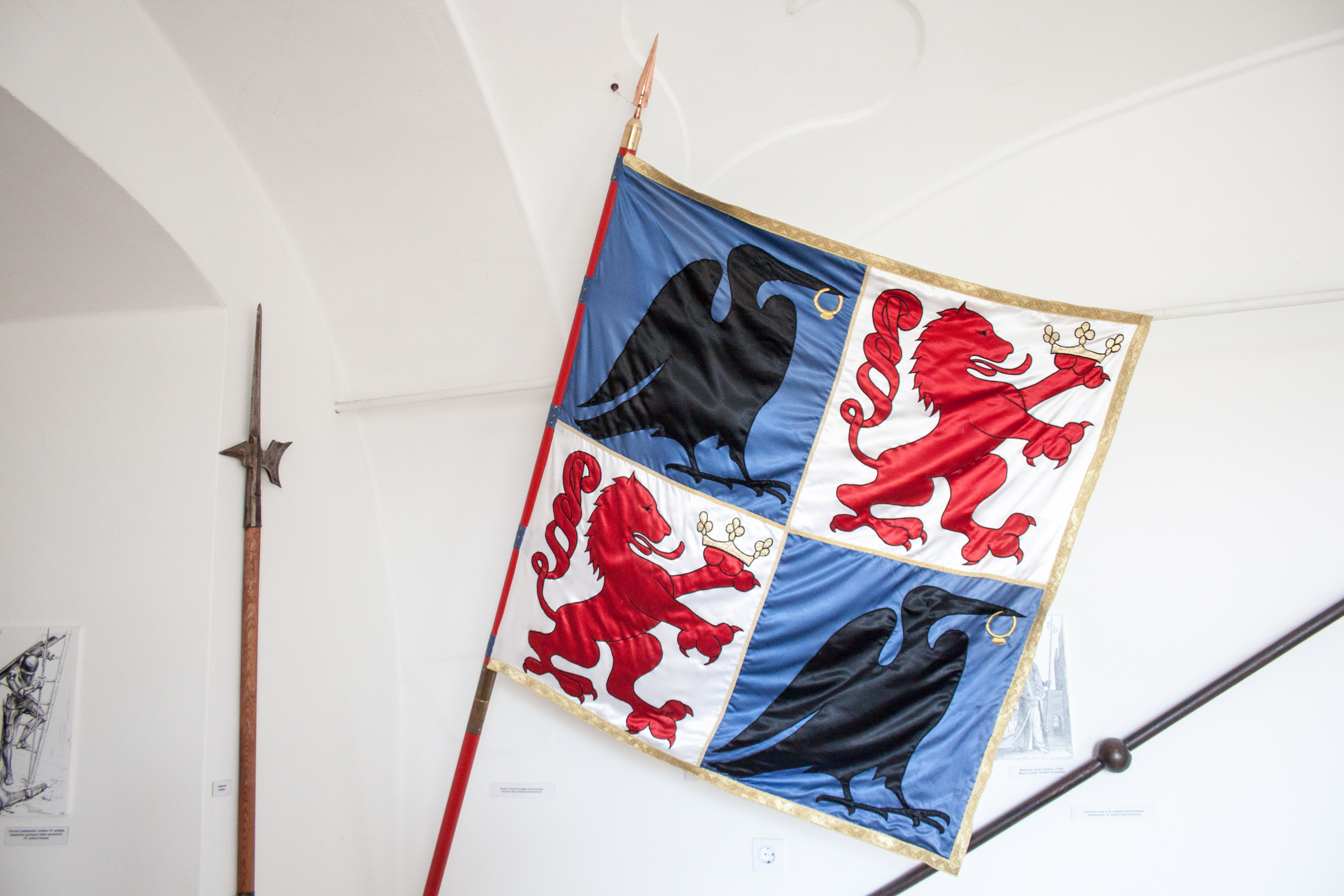 Flag of János Hunyady, reconstruction